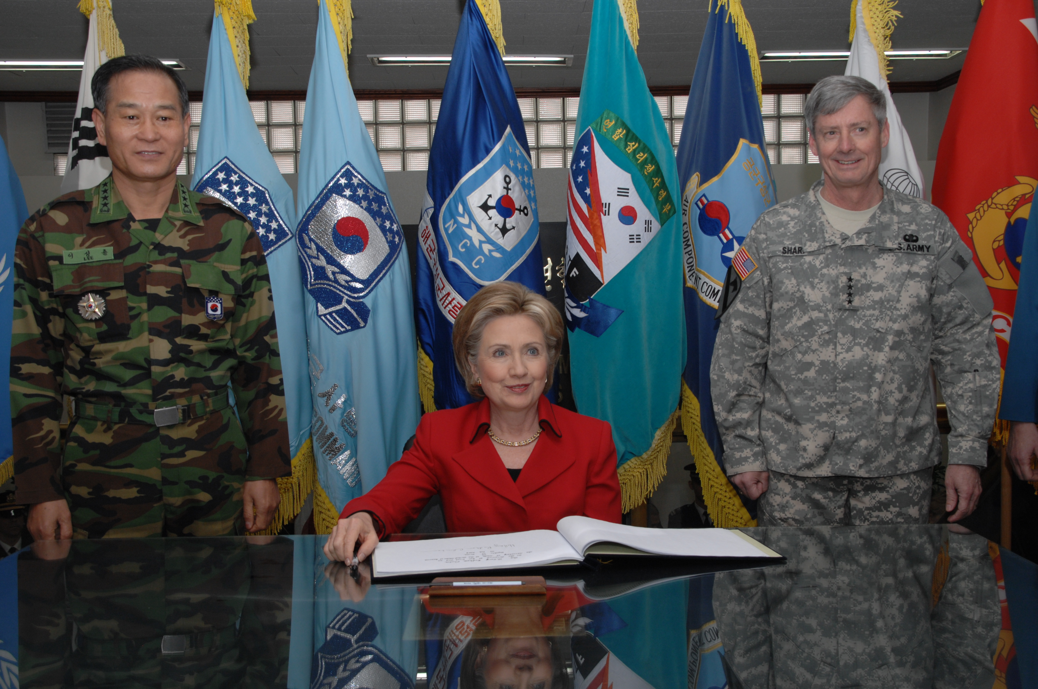 SEOUL, Feb. 20, 2009 - In her first official trip overseas as Secretary of State, Hillary Rodham Clinton visited the Combined Forces Command at the USFK headquarters on Yongsan Garrison. U.S. Army Korea Official Image Archive